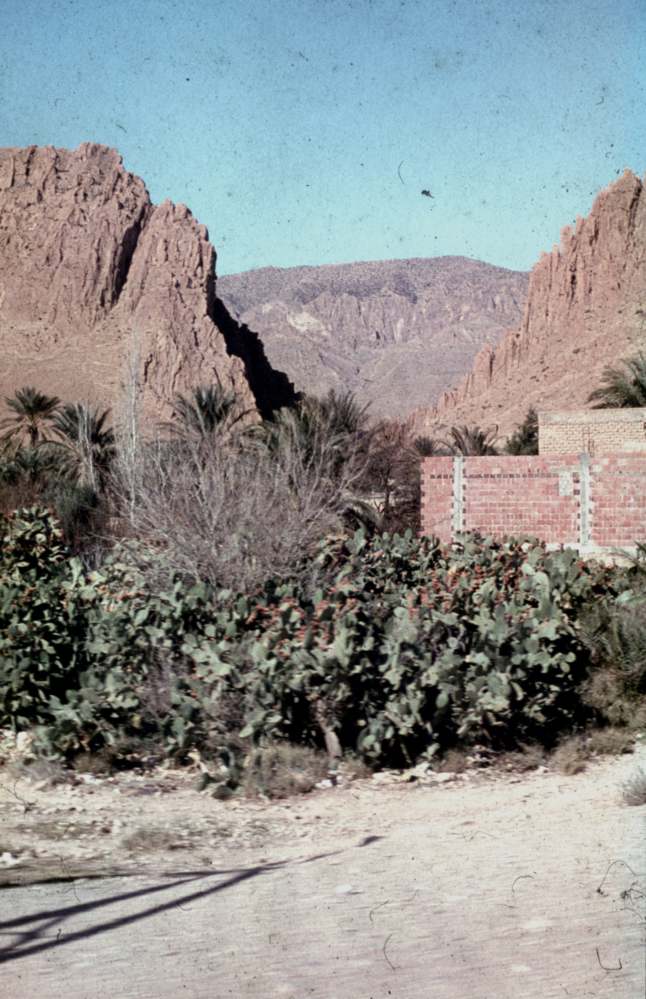 Well and associated buildings in Tessalit, a town in northern Mali, close to the Algerian border